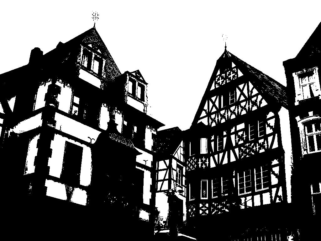 image processing illustration, after Otsu algorithm